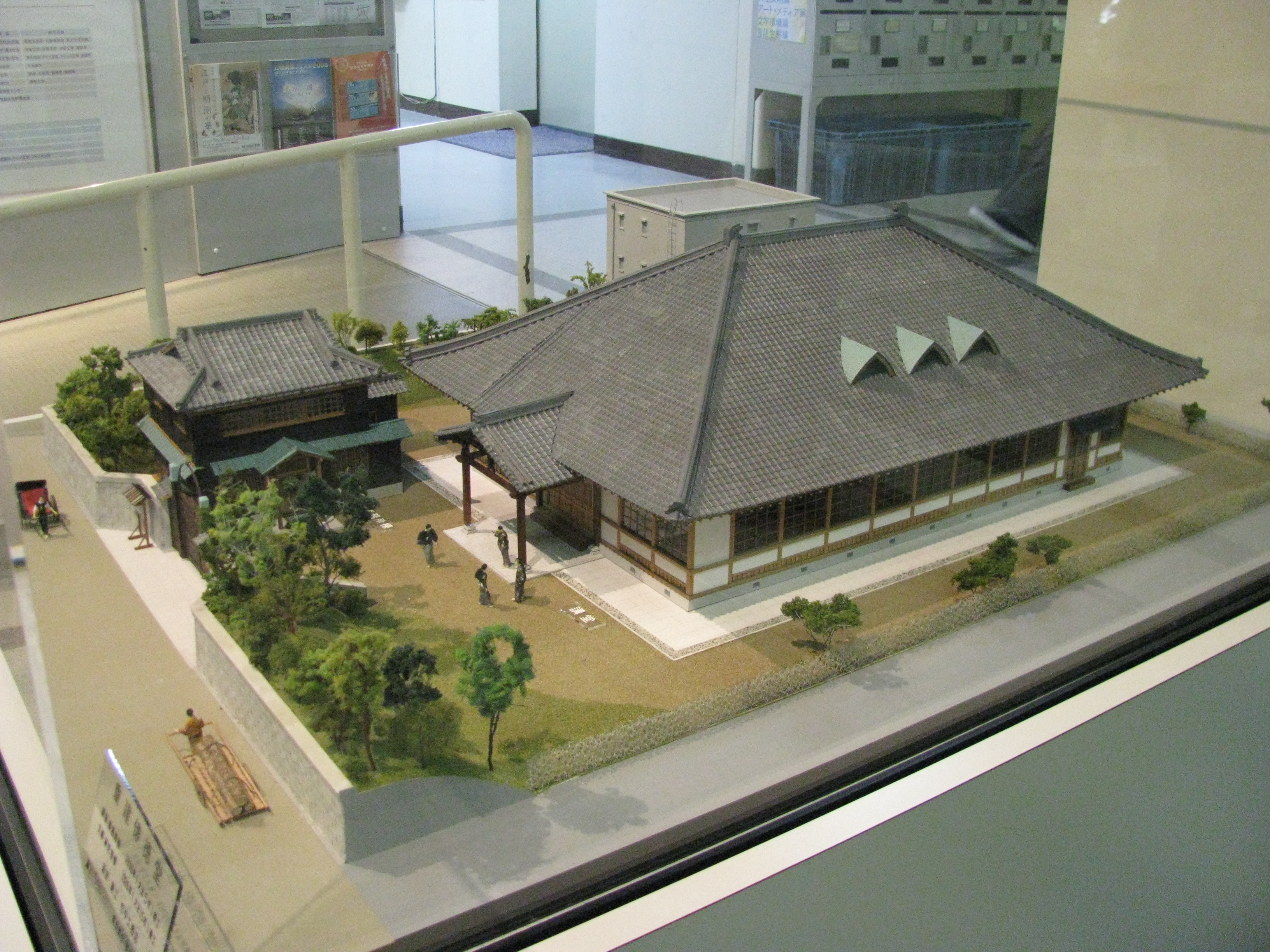 The model of Kaitokudo. Exhibited in Economics building, Toyonaka campus, Osaka University.